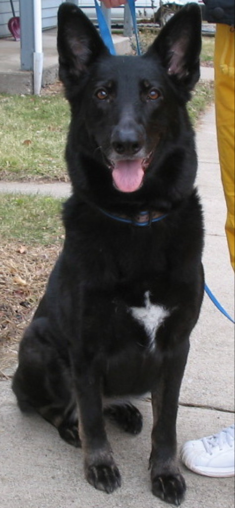 A black German Shepherd Dog